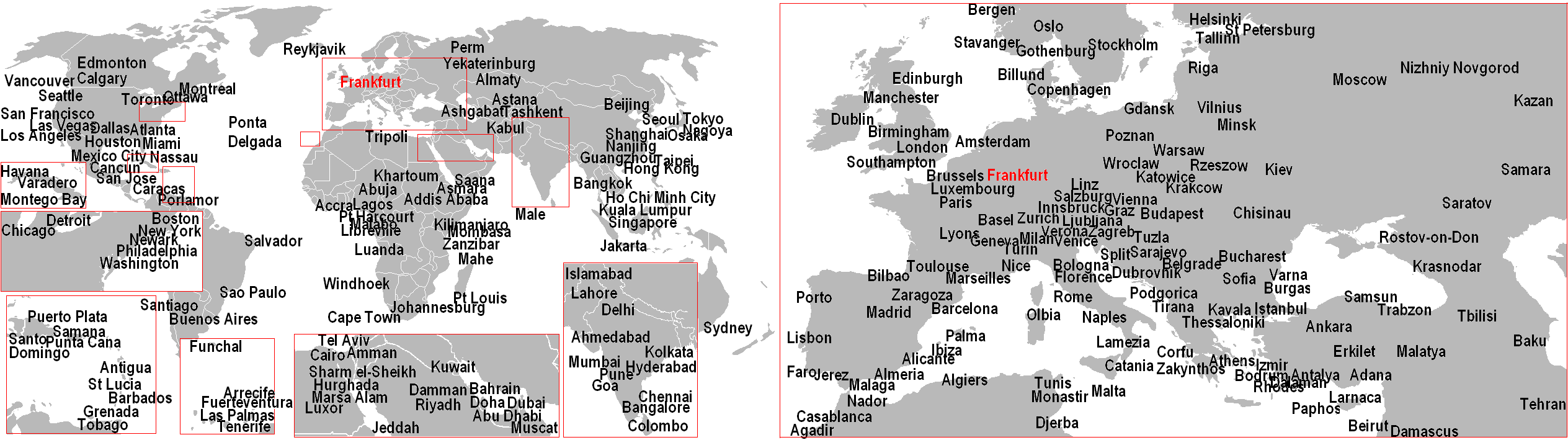 Cities with a direct international link to FRA